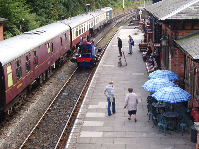 Photograph of Shakerstone railway station and platform in the village of Shackerstone (Leicestershire, England). Also part of the Battlefield Line historic railway and museum between Shenton and the Battle of Bosworth Field.